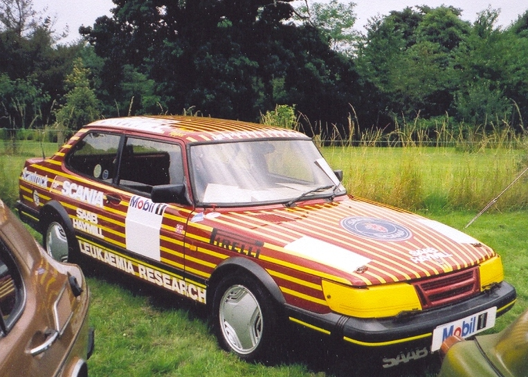 Saab haymill racer 1988 champion